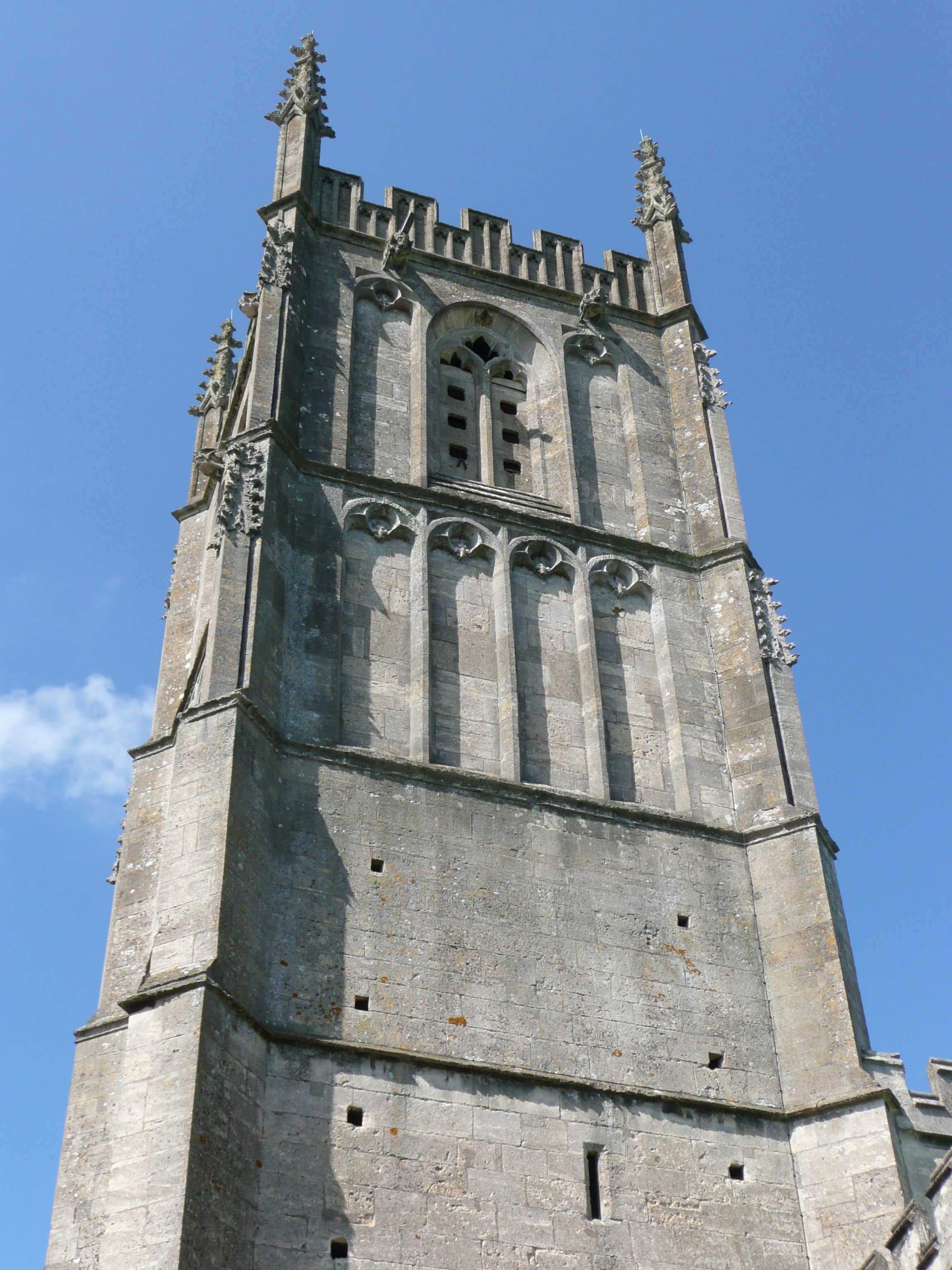 St. Mary the Virgin tower, Wotton-under Edge